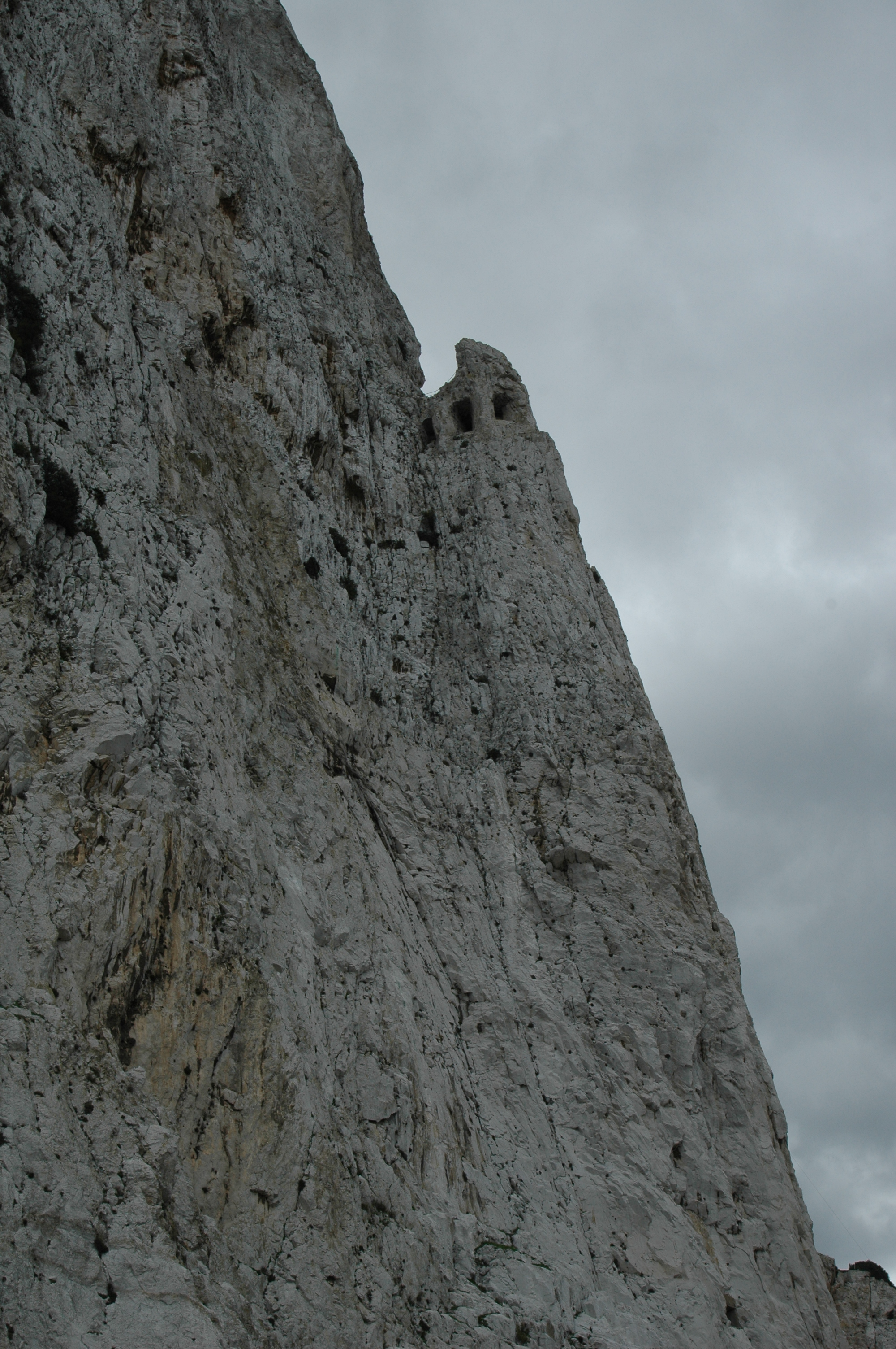 Europa Point, Gibraltar